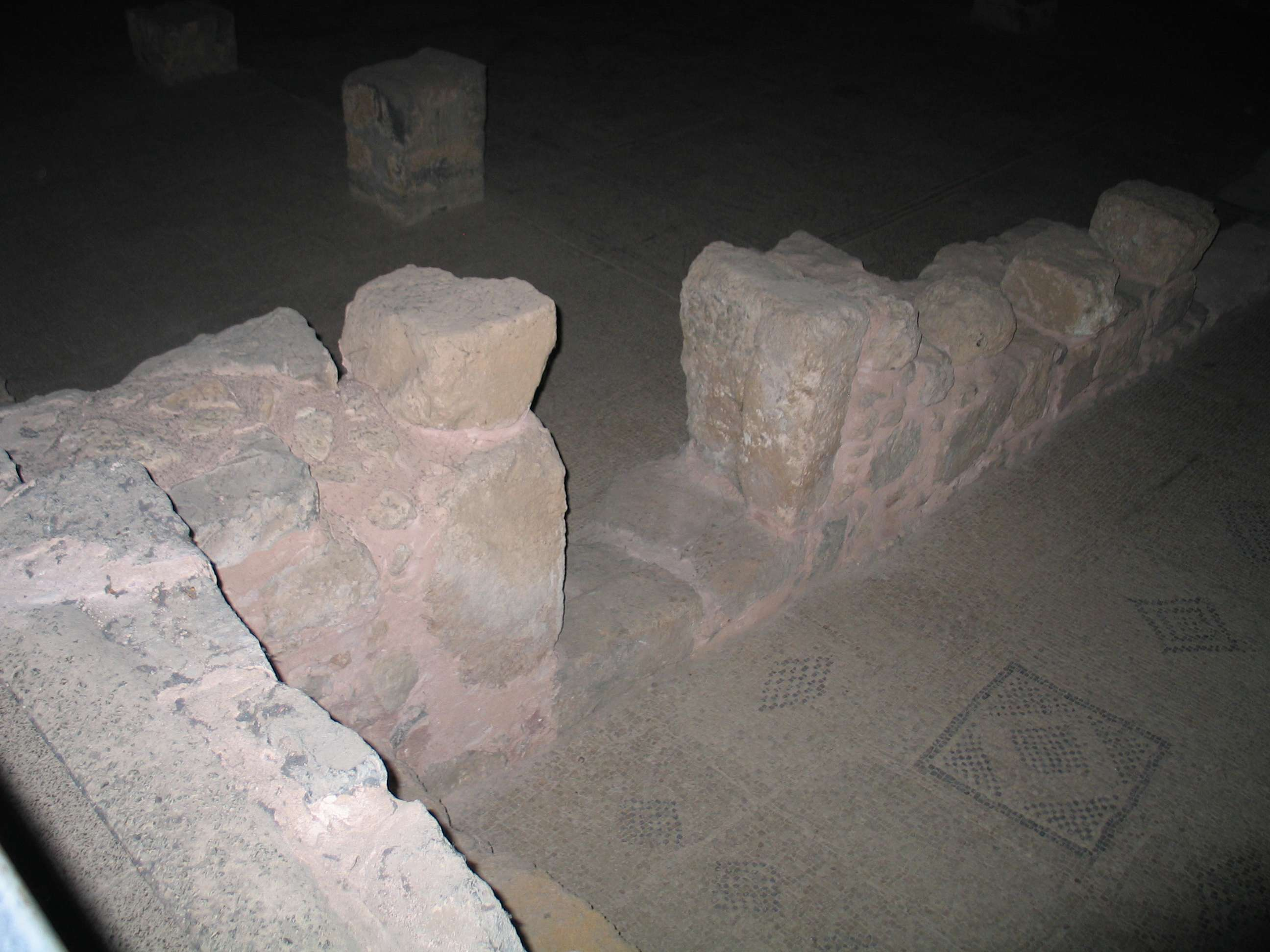 Beyt Alfa national park, Israel.